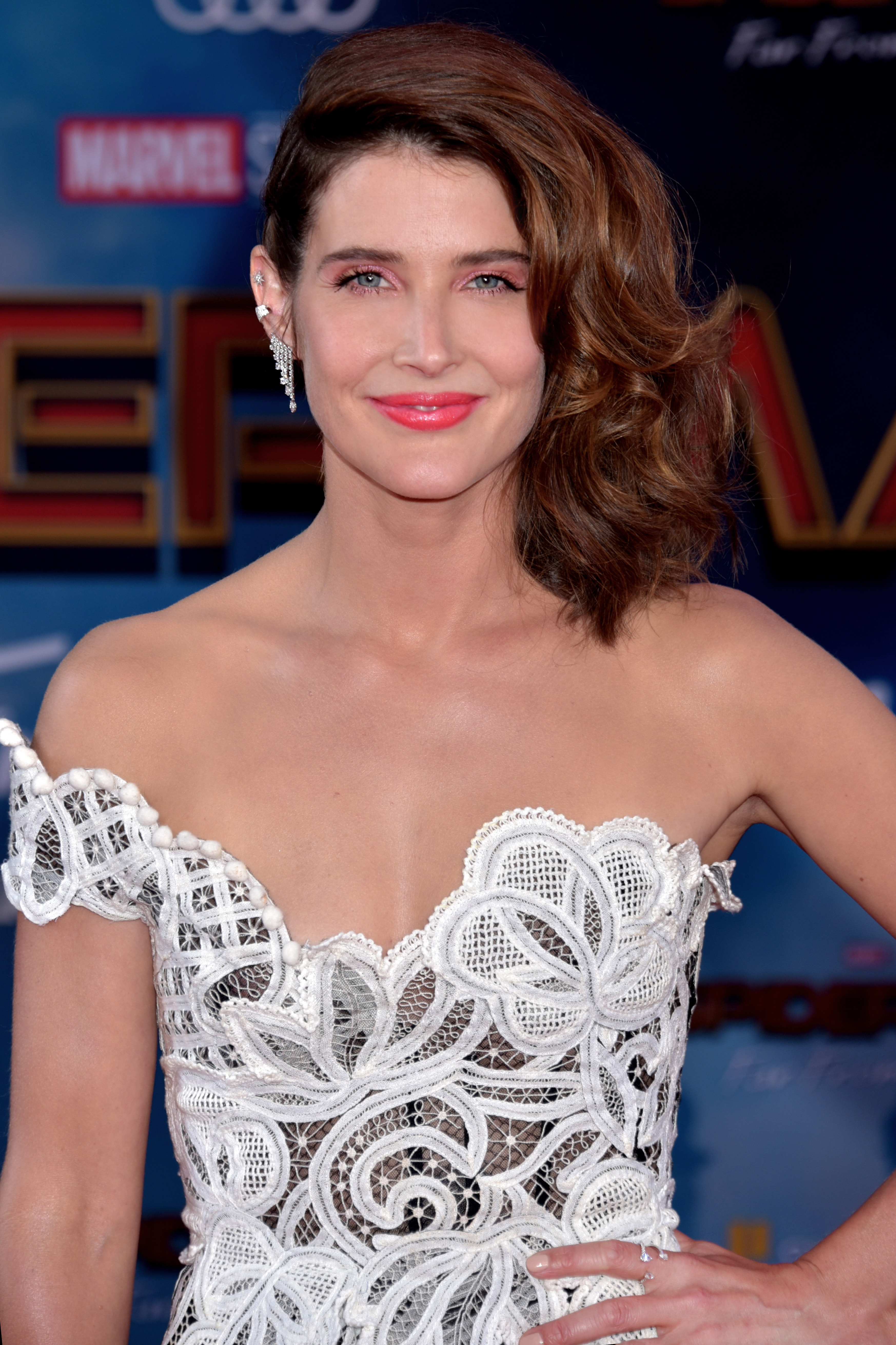 Colbie Smulders at the premiere of "Spiderman: Far From Home" in Hollywood California on June 26, 2019 - Photo by Glenn Francis of